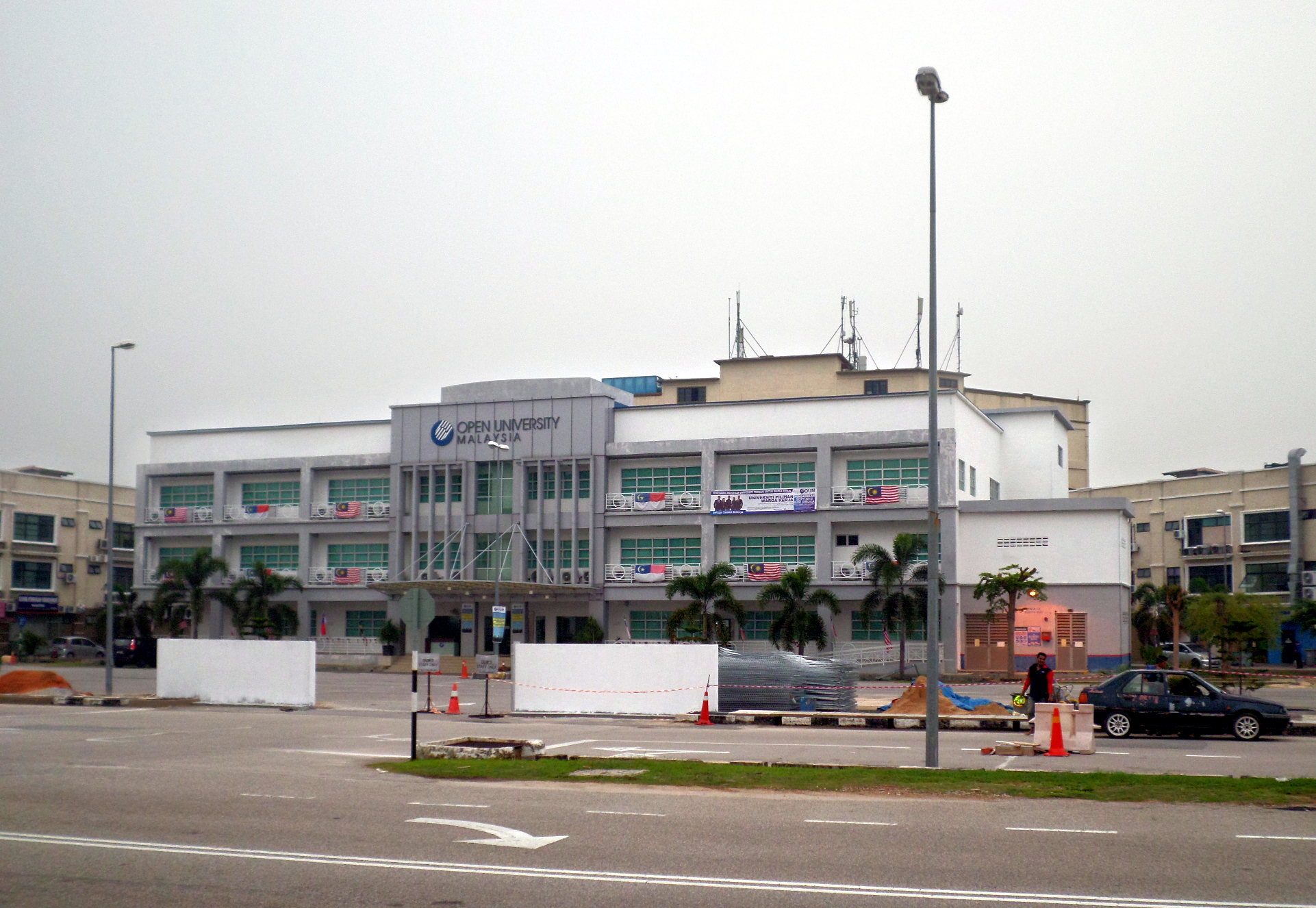 Open University Malaysia, Bukit Baru, Central Melaka, Melaka, MalaysiaBahasa Melayu: Universiti Terbuka Malaysia, Bukit Baru, Melaka Tengah, Melaka, Malaysia